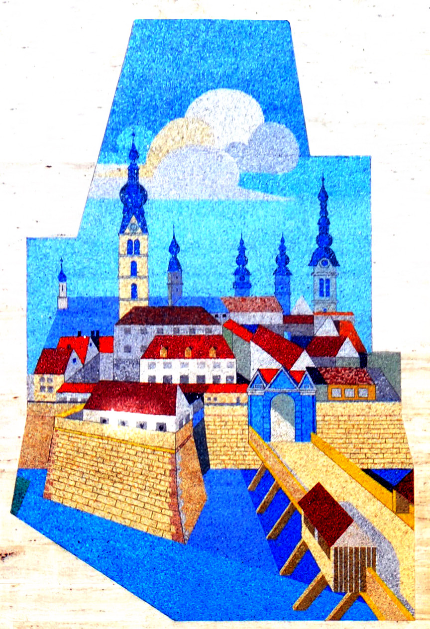 Fresco (showing the Voelkermarkter Tor of the old city wall before 1809), exposed on the house wall of the building on the Salmstrasse #1, Inner City of Carinthia`s capital Klagenfurt, Carinthia, Austria